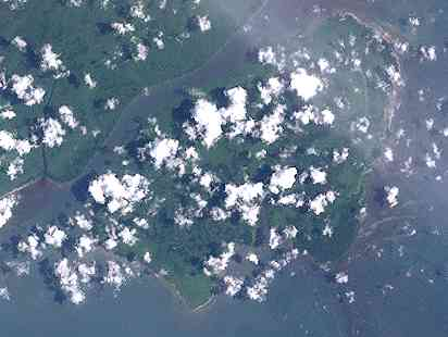 Parama Island, Torres Strait Islands, Western Province, Papua New Guinea. (Too much clouds, sorry).